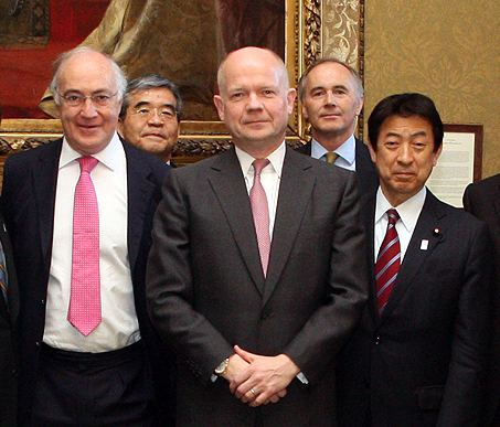 Members of the UK-Japan 21st Century Group met William Hague, Secretary of State for Foreign and Commonwealth Affairs, in the United Kingdom on May 2, 2013.